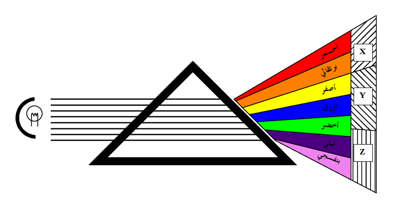 Tristimulus values